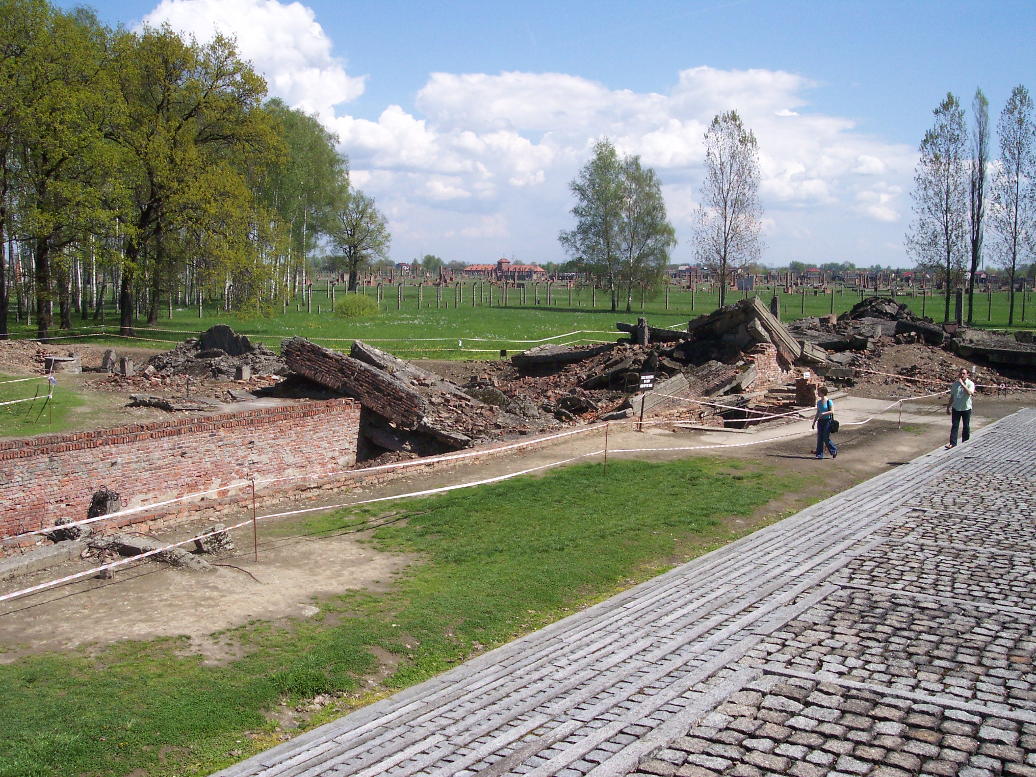 Ruin of the Crematorium III in the concentration camp Auschwitz II (Birkenau)